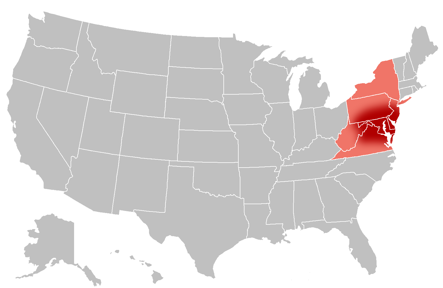 General definition of the Mid-Atlantic region of the United States. The pink areas are the states that are often accepted to be part of the Mid-Atlantic. The dark red signifies the regions that are almost always considered to be the Mid-Atlantic. There is no specific boundary for what constitutes the "common Mid-Atlantic" so I have gradually faded it out to pink. Map taken from File:BlankMap-USA-states.PNG